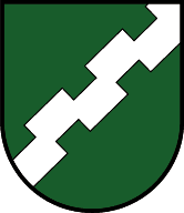 Source: "Fahnen-Gärtner GmbH, Mittersill" This file depicts a coat of arms. The composition of coats of arms are generally public domain with respect to copyright laws, and may be reproduced freely. This corresponds to the international traditional usage, and is explicitly stated in some national copyright laws. Some compositions, of more recent origin, may be copyrighted. This is not a valid license as such, being a "public domain" statement for the coat of arms definition only. It must be completed with the copyright tag associated to the picture creation. See Commons:Coats of arms for further information. Please note that this applies only to the coat of arms definition (composition / description). The representation of a coat of arms is an artistic creation, subject as such to copyright laws. Restriction of use - Legal notice: Most of the time, the usage of coats of arms is governed by legal restrictions, independent of the status of the depiction shown here. A coat of arms represents its owner. Though it can be freely represented, it cannot be appropriated, or used in such a way as to create a confusion with or a prejudice to its owner. Usage on Commons: Please provide licence information for the coat of arm representation, information for the author of the picture, and the source if not self-made work. This image is in the public domain according to Austrian copyright law because it is part of a law, ordinance or official decree issued by an Austrian federal or state authority, or because it is of predominantly official use. (§7 UrhG) To uploader: Please provide where the image was first published and who created it.